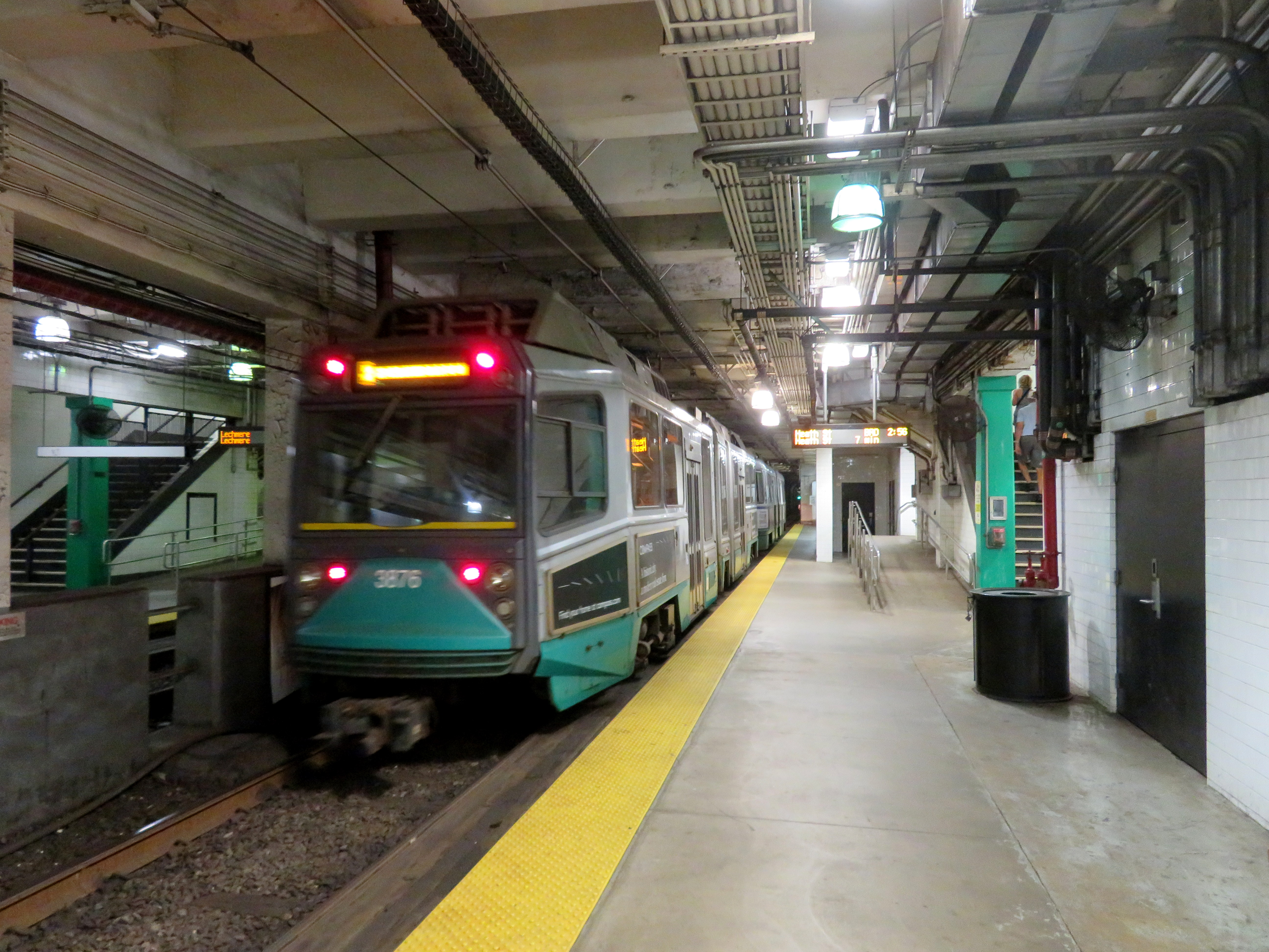 An outbound train leaving Prudential station in July 2019